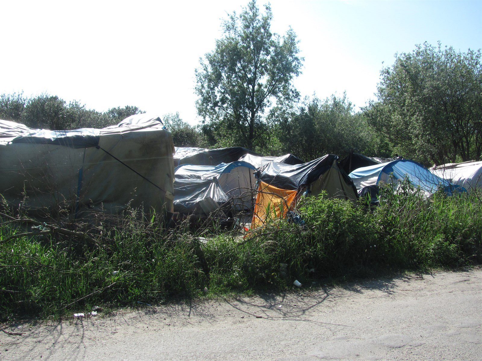 "The Jungle" refugee camp outside Calais, 18th June 2015. Originally published at iDNES.cz